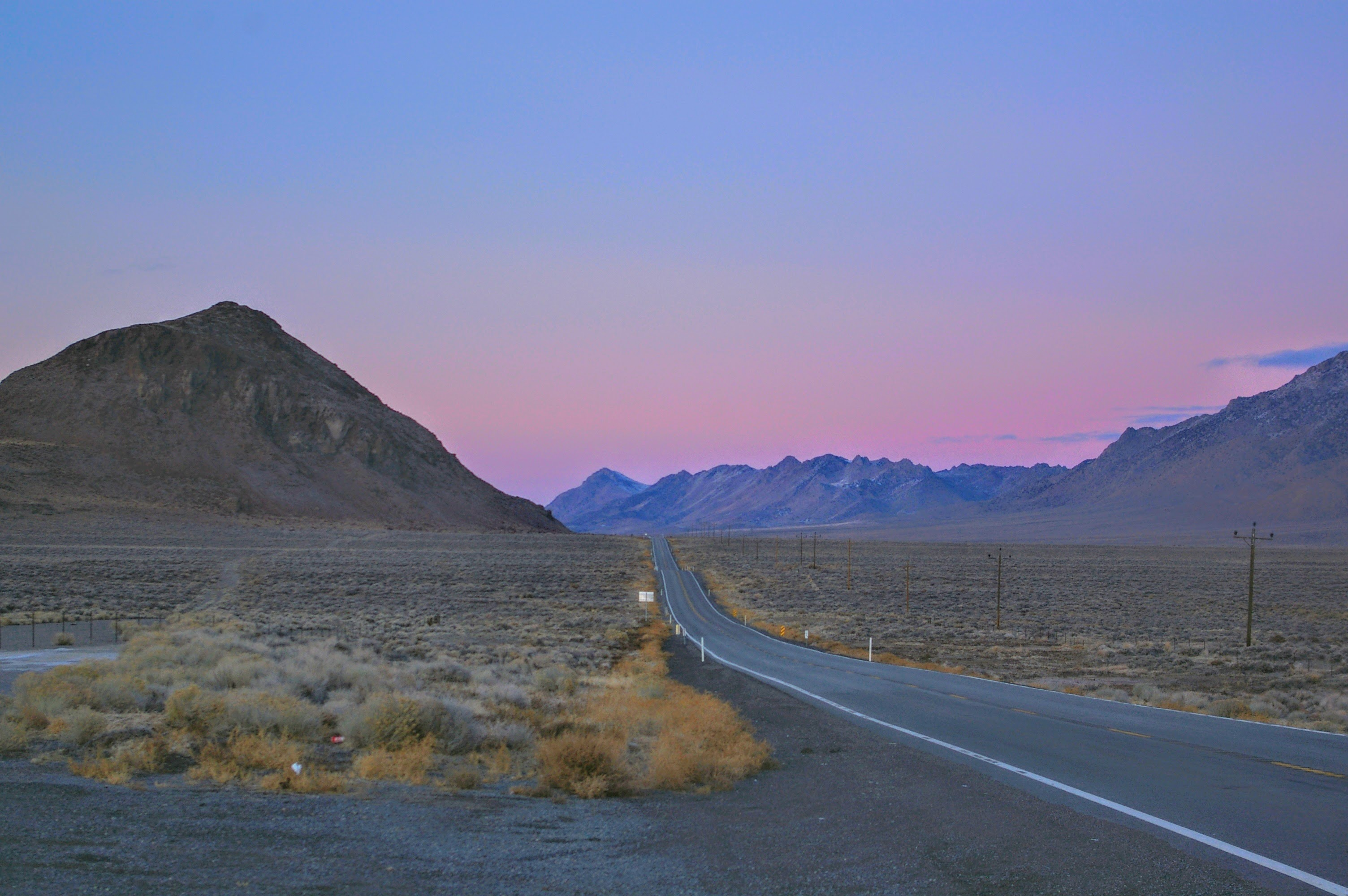 Nevada State Route 447 proceeding towards Gerlach